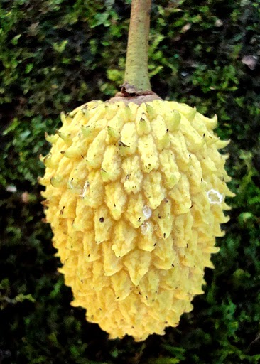 Rollinia Sericea fruit